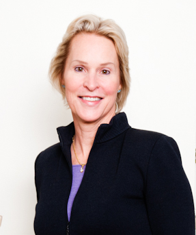 Photo of Prof. Frances H. Arnold, May 2012